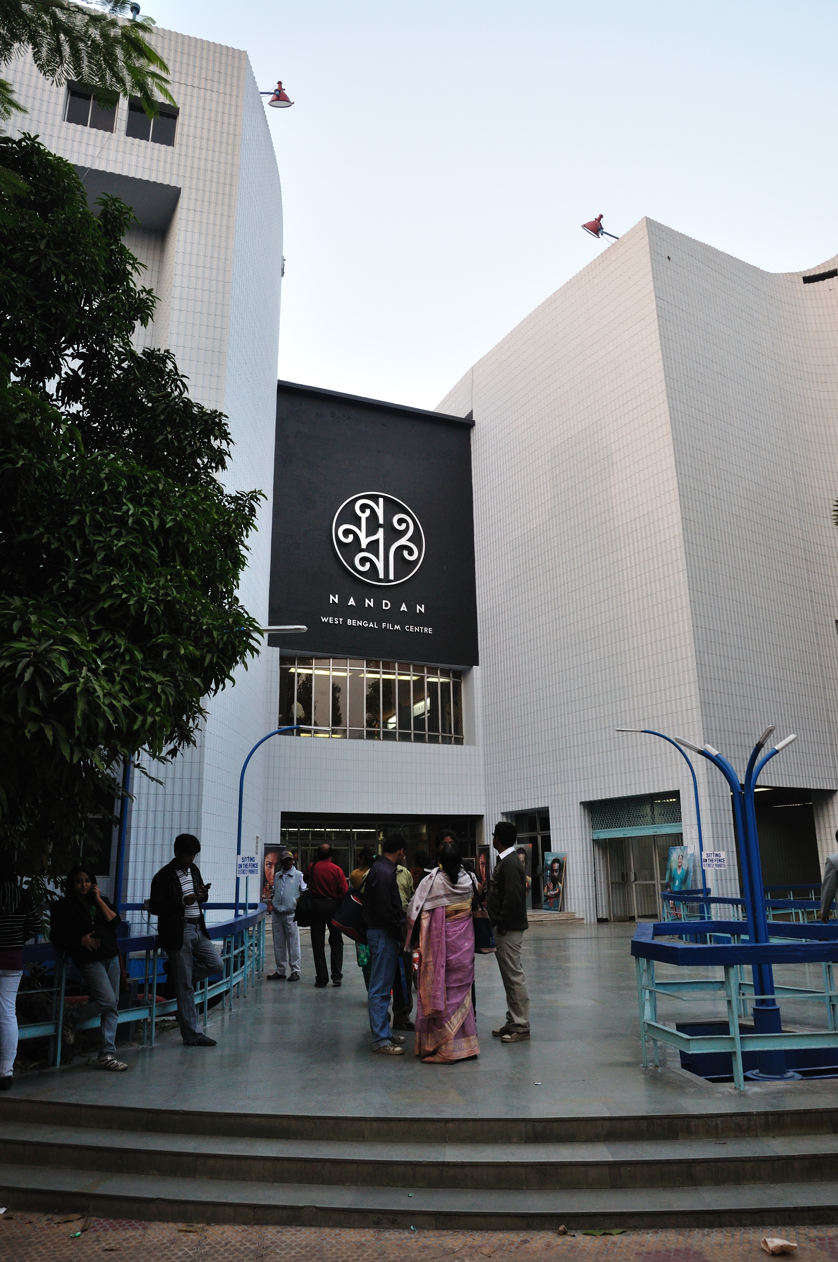 Nandan is a government sponsored centre in Calcutta, India for facilitating film awareness and includes a few comparatively large screens housed in an impressively architectured building. It shares its site with the Rabindra Sadan cultural centre.The complex, besides being a modern cinema and cultural complex, is a popular hang-out for the young and the aged. Nandan was inaugurated by Satyajit Ray in 1985.